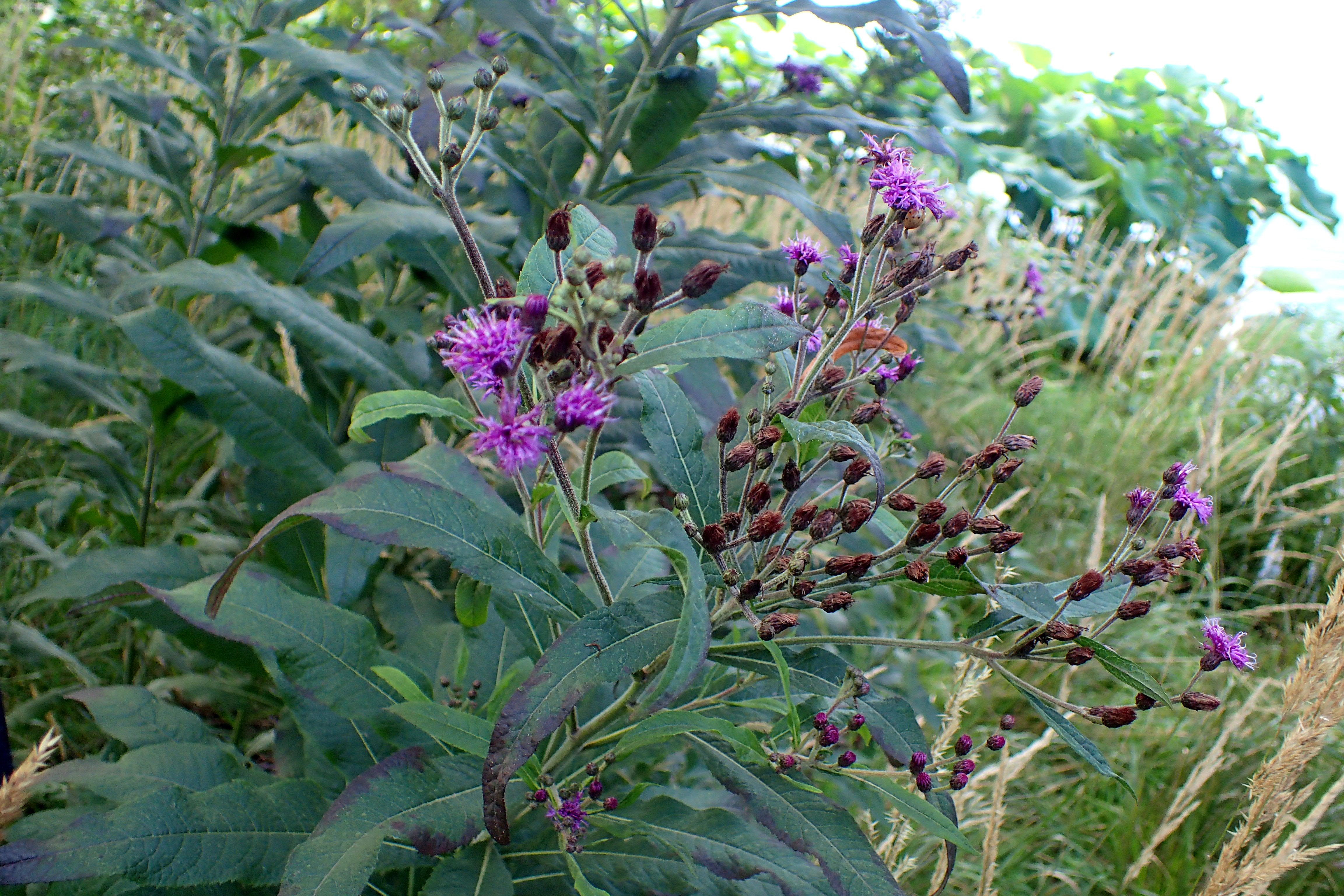 Vernonia noveboracensis at Chicago Botanic Garden